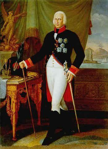 Ferdinand I of The Two Sicilies/Ferdinand IV of Naples